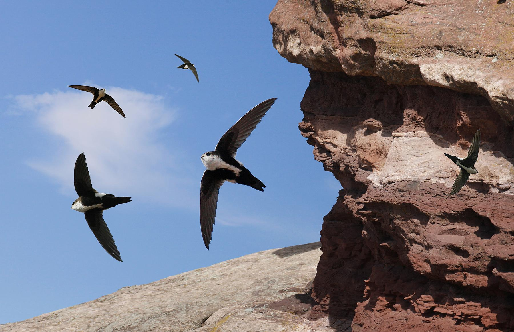 White Throated Swift From The Crossley ID Guide Eastern Birds